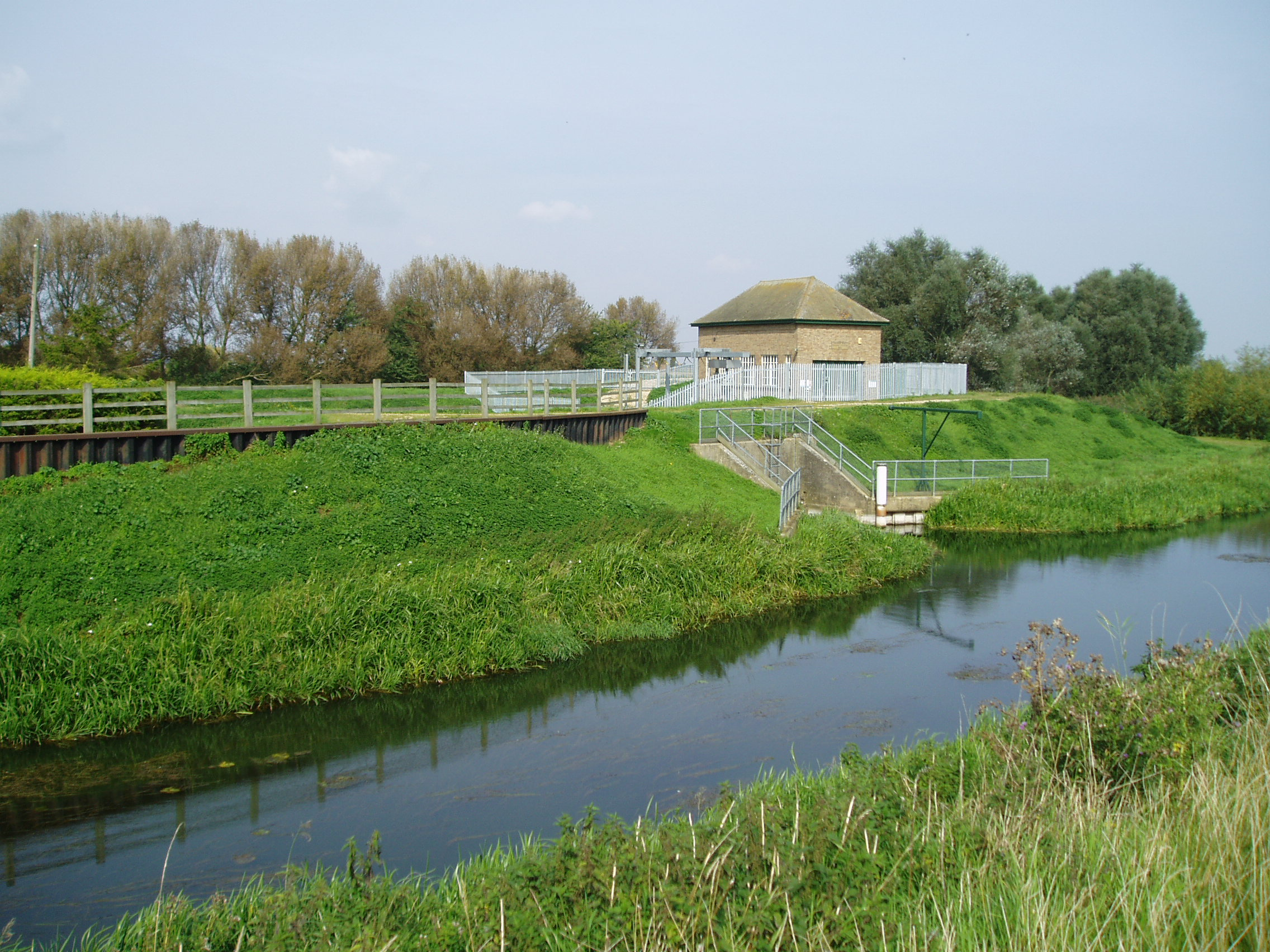 The pumping station at Tongue End, which marks the head of navigation and the confluence with the Bourne Eau